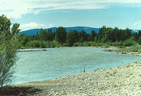 Blackfoot River, two miles east of Lincoln, Montana